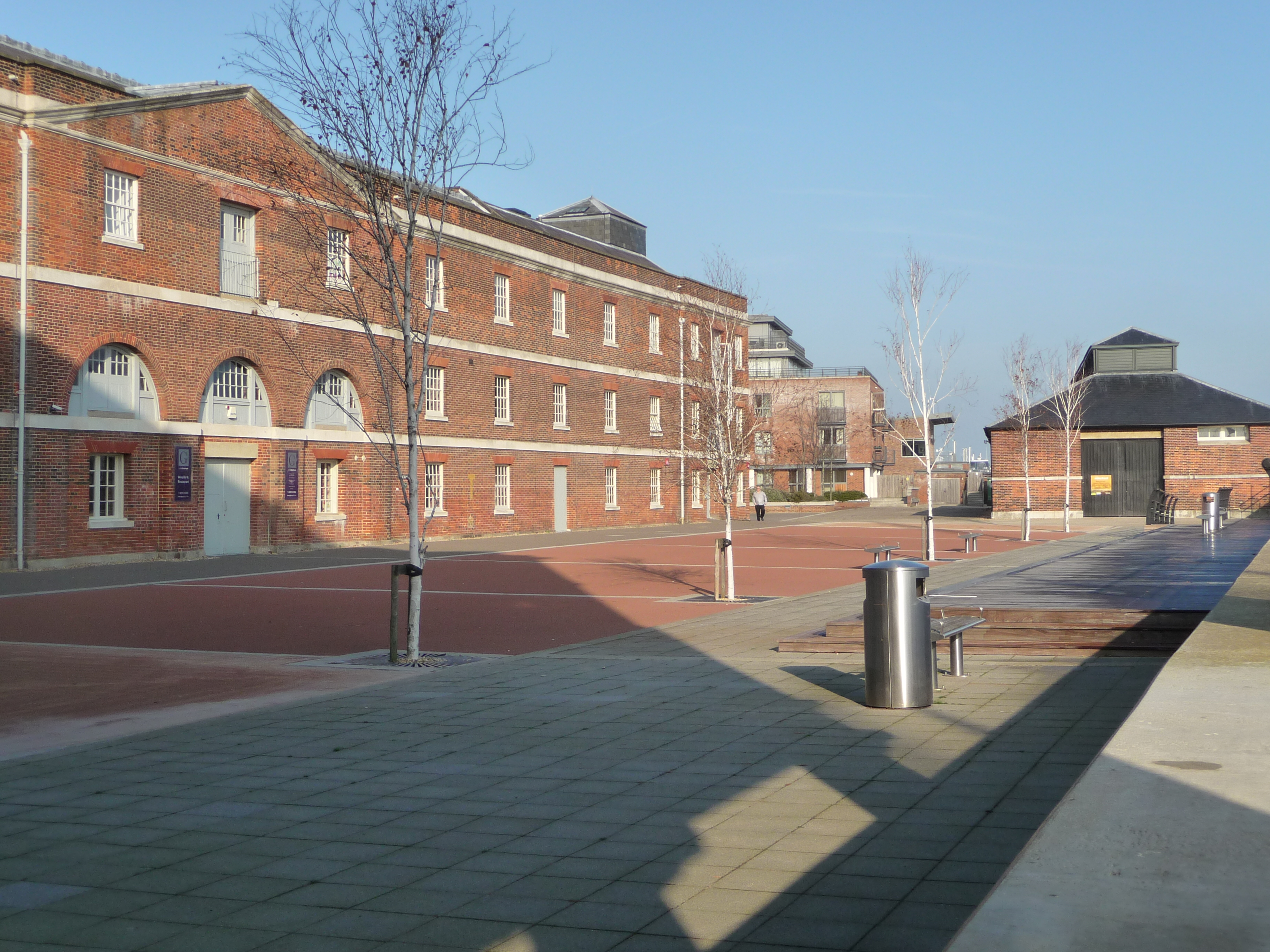 The Bakery on the Royal Clarence Yard waterfront is a late Georgian style, red-brick building with Grade II* Listed Building status.